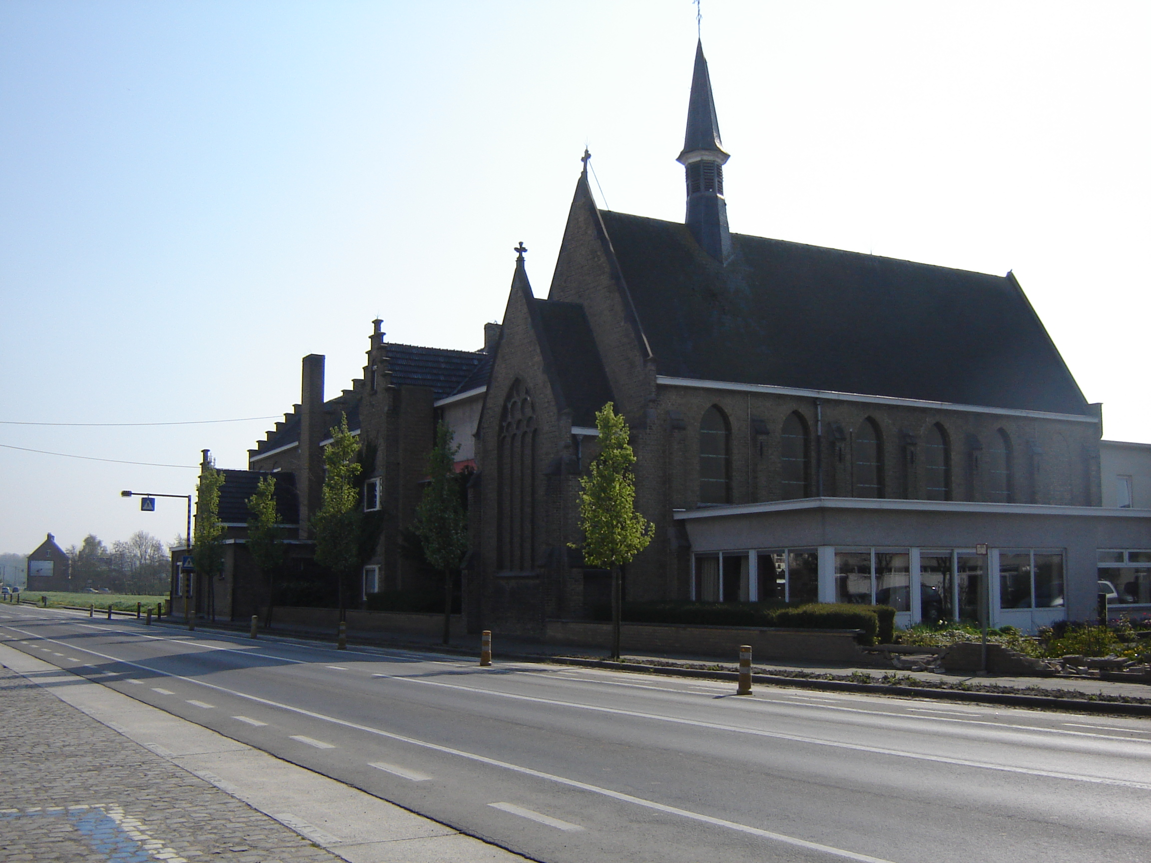 Elementary school in Woumen. Woumen, Diksmuide, West-Flanders, Belgium